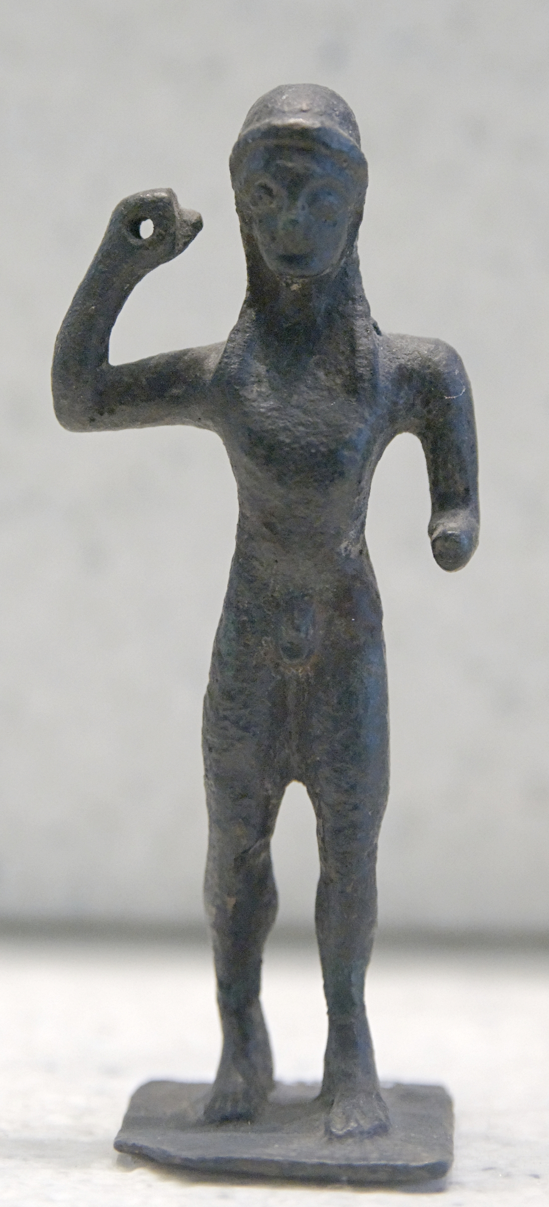 Javelin thrower. Bronze, Laconian style, third quarter of the 6th century BC. From the shrine of Apollo Hyperteleatas at Phoiniki, Laconia.